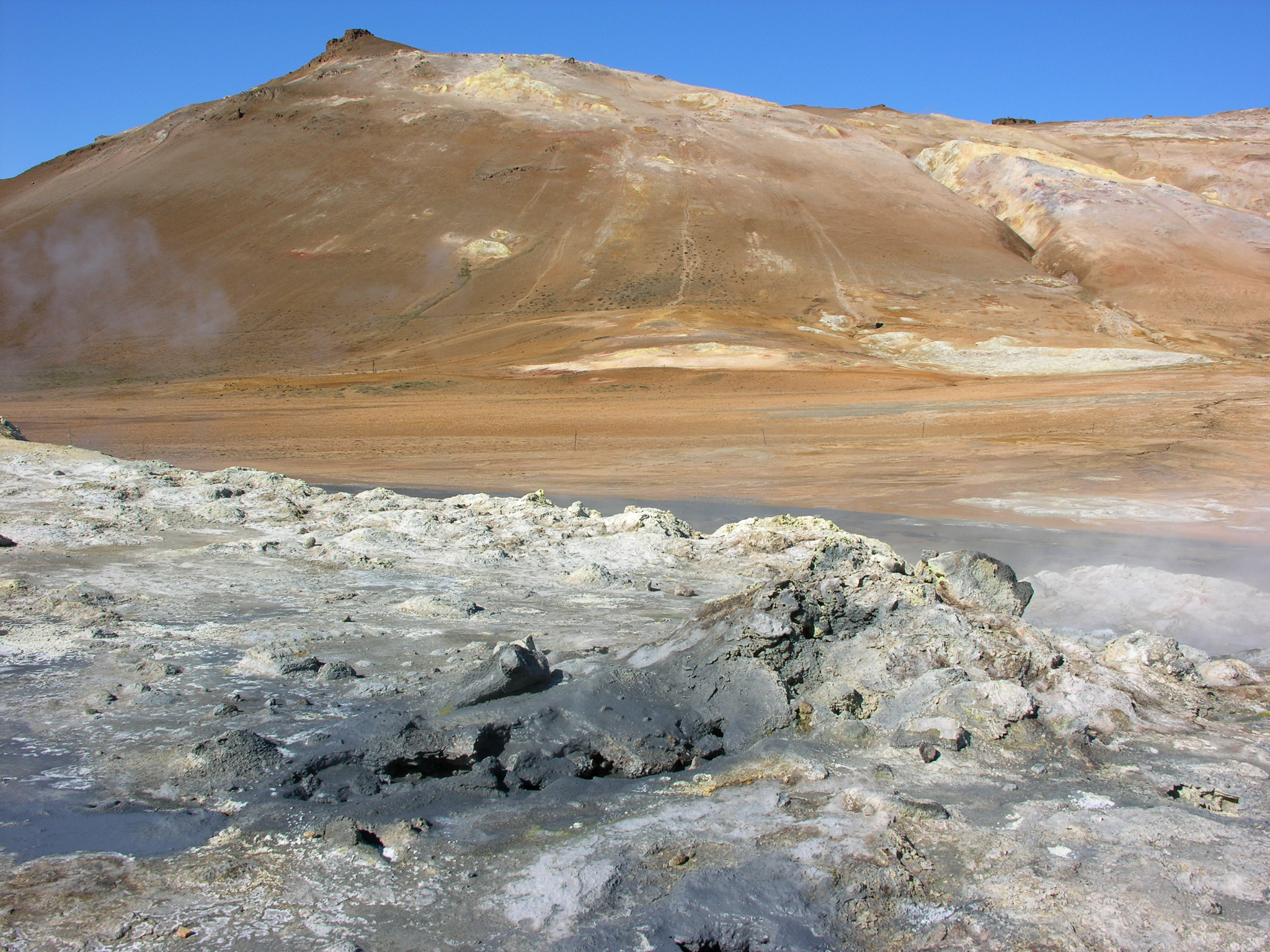 Iceland, hiking in the Námafjall geothermal area